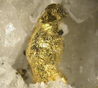 Gold, Hessite, Kutnohorite Locality: Sunnyside Mine (American Tunnel; Mogul Mine; Washington Mine; Belle Creole; Gold Prince; Brenneman Mine; Sunnyside Mine Group), Howardsville, Silverton District, San Juan County, Colorado, USA (Locality at ) Size: 4.0 x 3.3 x 2.7 cm. A classic gold specimen from the famous Sunnyside mine in the renowned San Juan Mountains of southwestern Colorado. This piece features a predominant, rather unusual complex crystal (highly modified dodecahedron with octahedral faces) of gold with excellent luster and a bright color associated with massive black-grey hessite and pale pinkish color kutnohorite on white quartz matrix. The hessite on the specimen was analyzed by Gene Foord in the early 1980s. The piece is from the famed Colorado Gold collection of Richard A. Kosnar, and his label accompanies the piece. According to the label, the piece was mined in 1978, and Rich purchased the piece in 1983 after the Sunnyside Mine was shut down for over a year when Lake Emma collapsed and flooded the entire mine from the top down. A great Gold specimen from this now defunct, but highly significant Colorado Gold mine. From the D Level, Little Mary Vein.